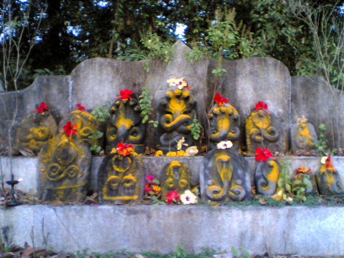 nagabana at Belle Badagumane moodubelle,udupi.the file was entirely created by me the uploader